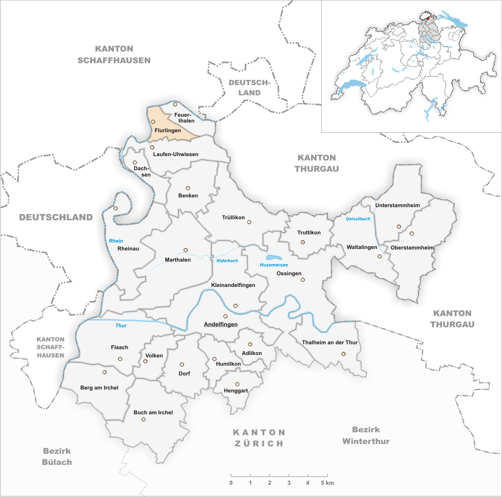 Municipality Flurlingen